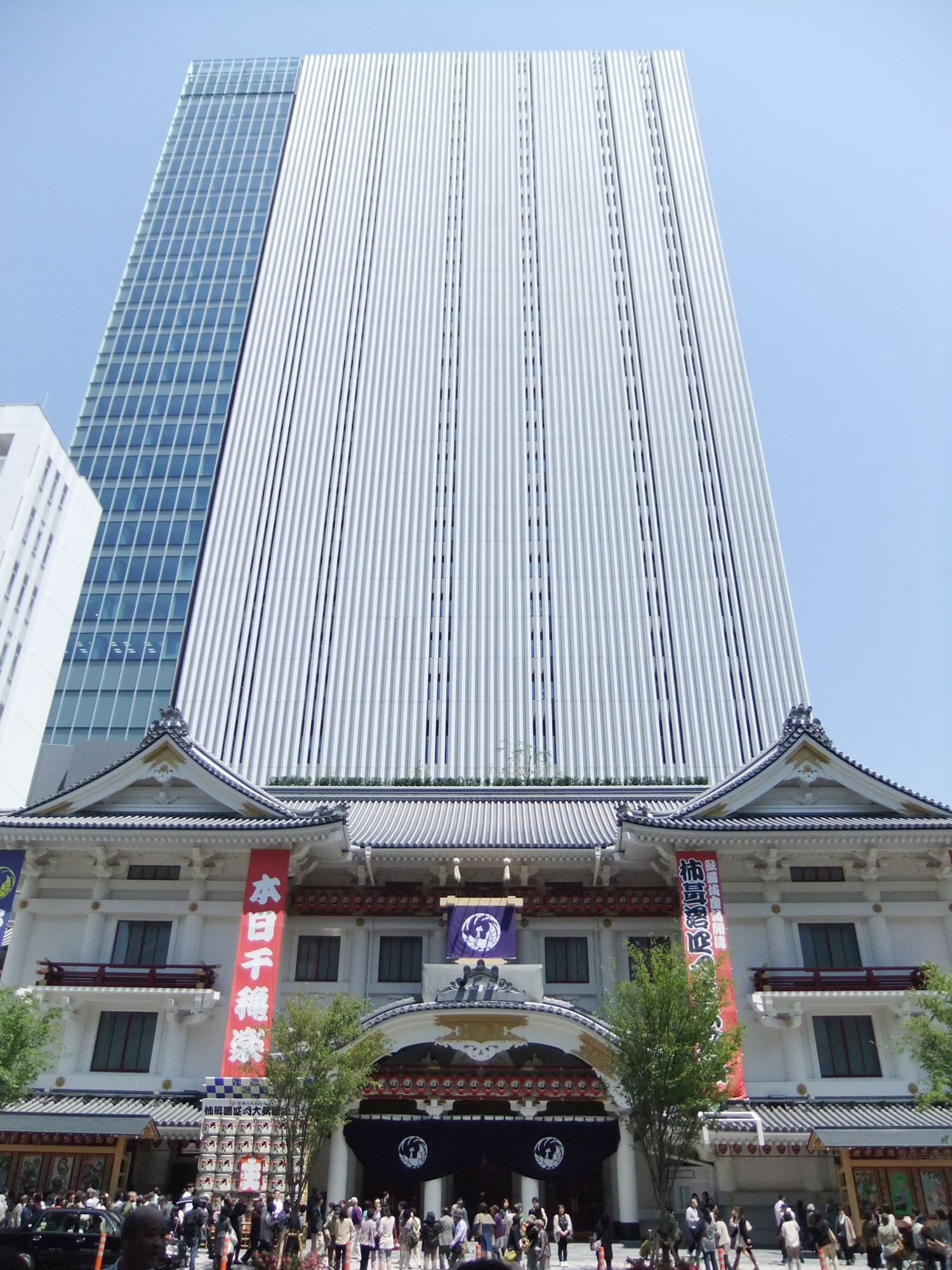 GINZA KABUKIZA (Kabuki-za) in Chuo-ku, Tokyo